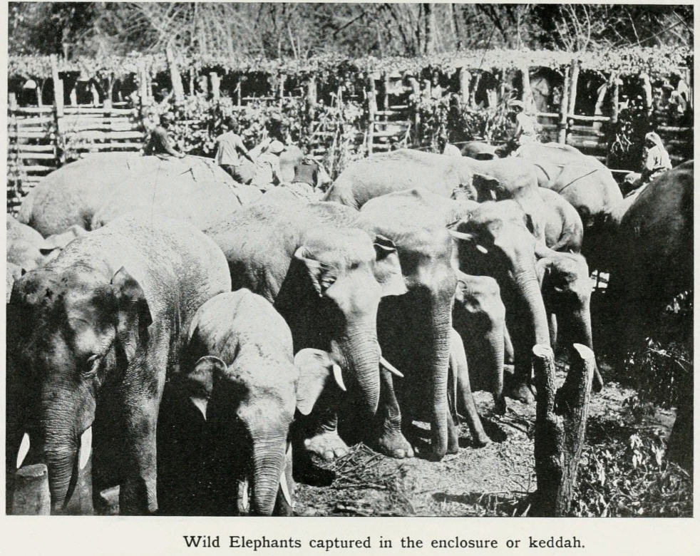 Elephant stockade / Kheddah Thurston, Edgar : The Madras presidency with Mysore, Coorg, and the associated states. -- Cambridge : University Press, 1913. -- xii, 293 S. : Ill. ; 23 cm. -- (Provincial geographies of India). -- Online: -- Zugriff am 2008-06-21. -- "Not in copyright."